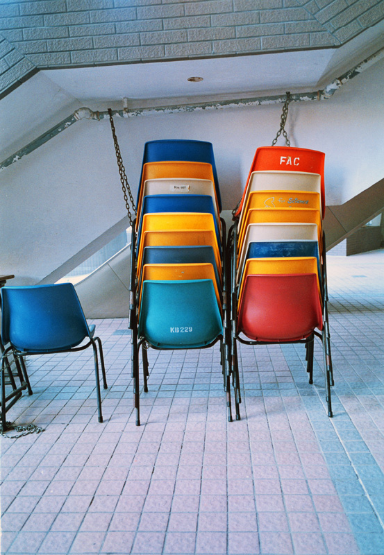 HKU, December 2007. The Polyprop chair by Robin Day when working for Hille led by Rosamind Julius and her husband